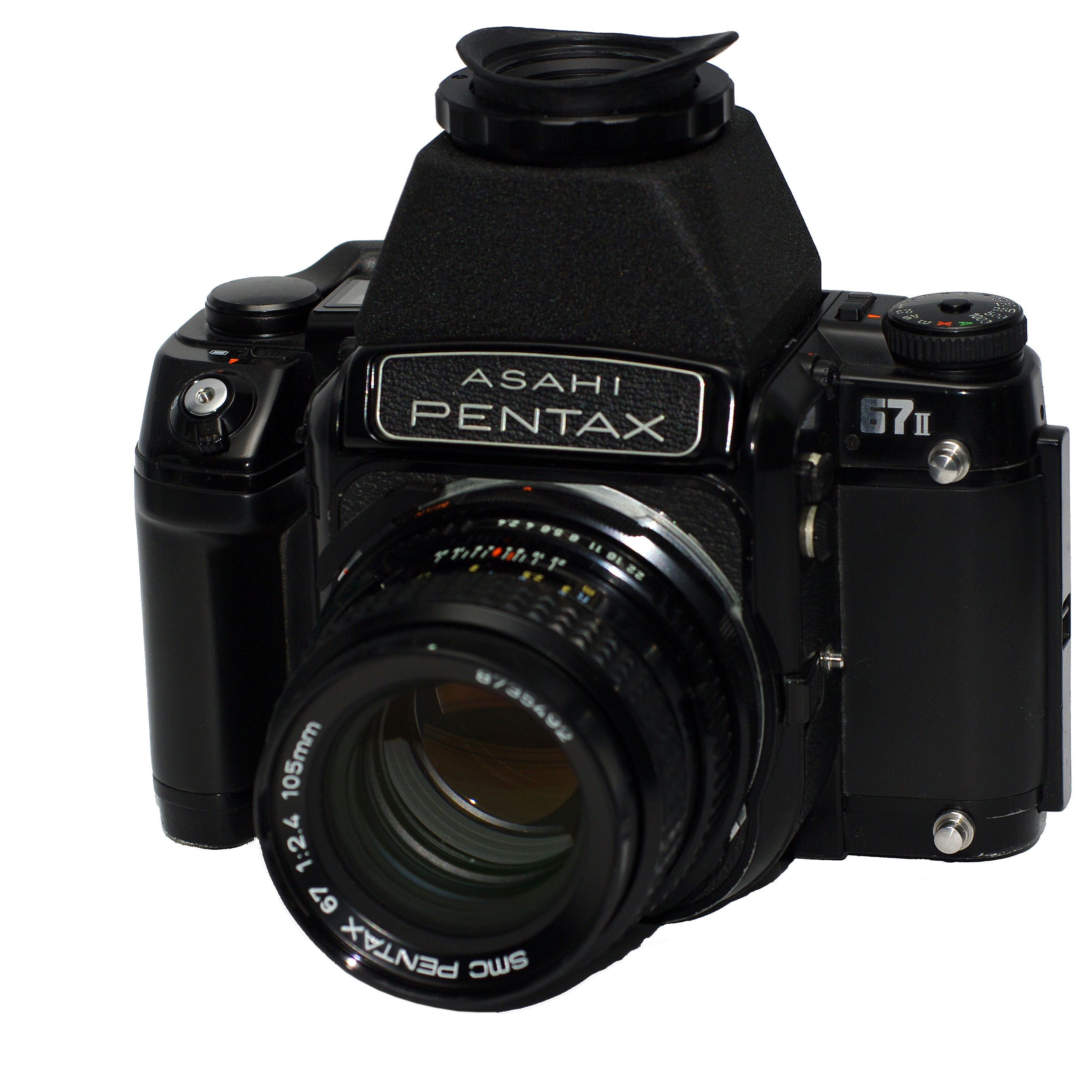 Pentax 67 II SLR camera